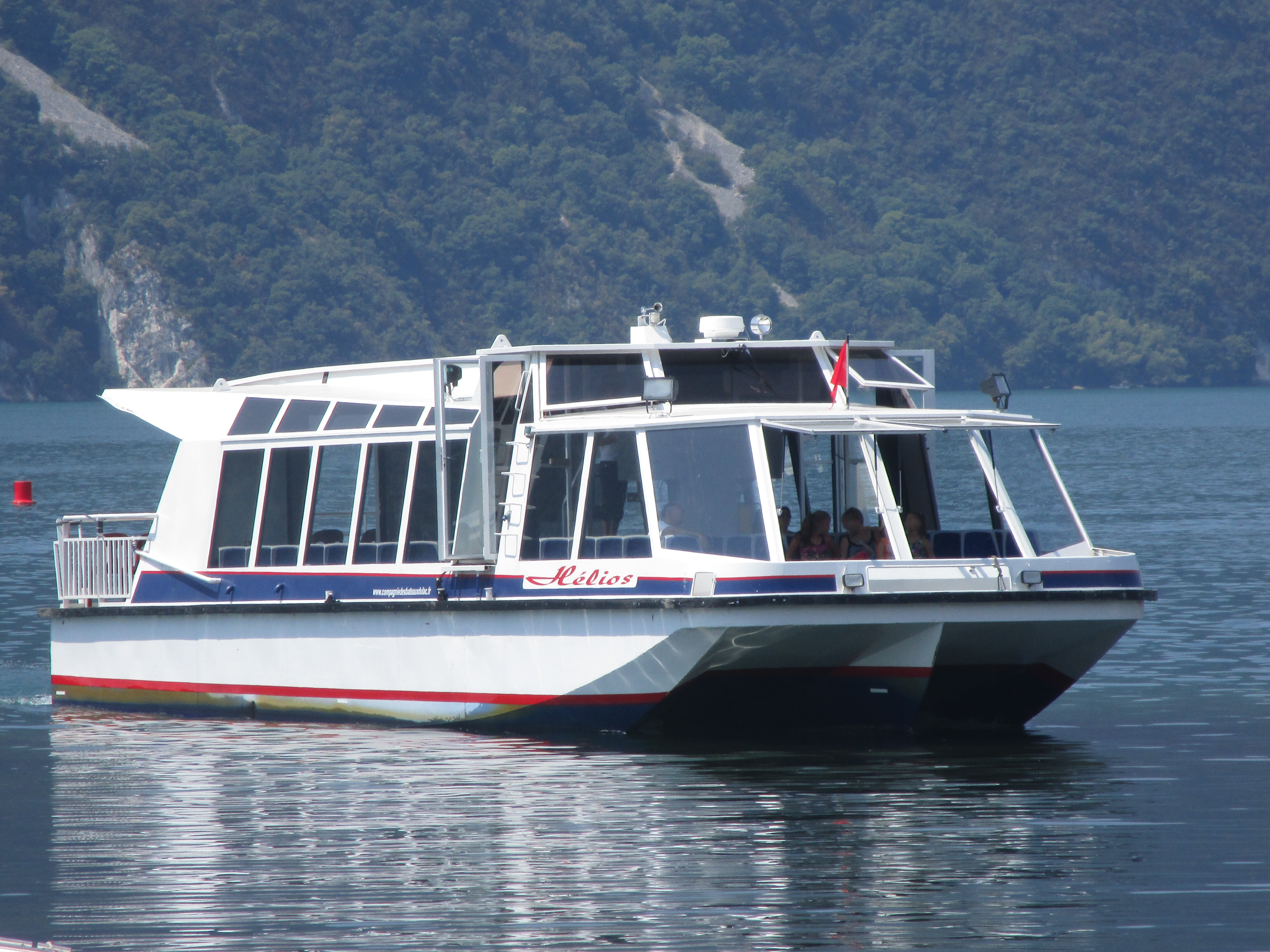 The inland cruise ship Hélios of the Compagnie des Bateaux du lac du Bourget et du Haut-Rhône at Aix-les-Bains on July 17, 2015.